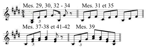 Accompaniment forms in the second stanza of the "Lindenbaum" in Schubert's "Winterreise"